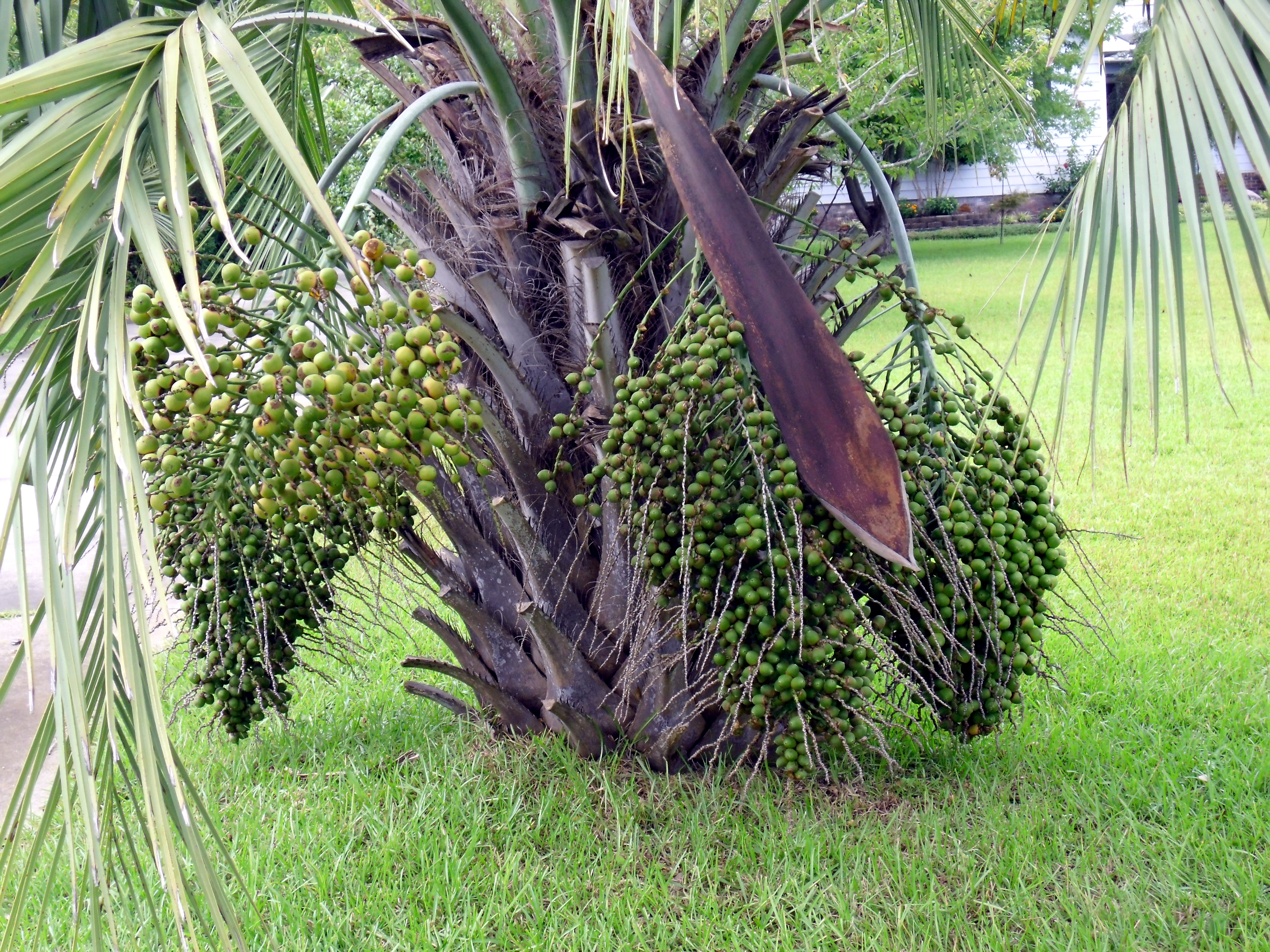 Butia capitata or Jelly Palm, with fruit. Coastal North Carolina, USA